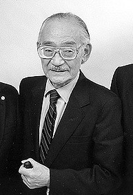 From left to right: Gordon Hirabayashi, Minoru Yasui, and Fred Korematsu